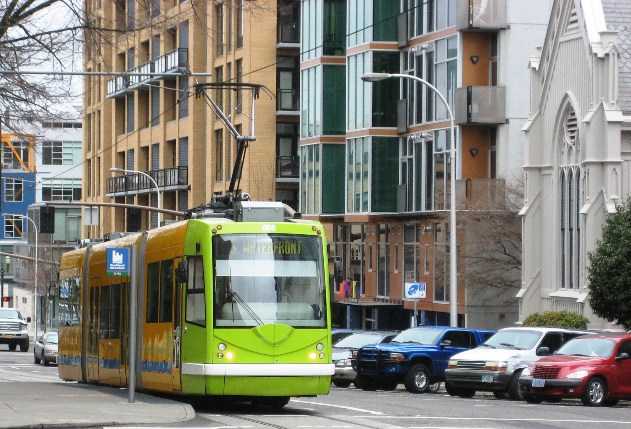 Inekon-built streetcar in Portland, Oregon, USA, on the Portland Streetcar system. Car is stopped at SW 11th and Clay with The Old Church on the right.